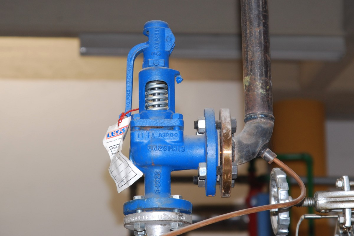 A european standard steam boiler safety valve (PN16, DN25)